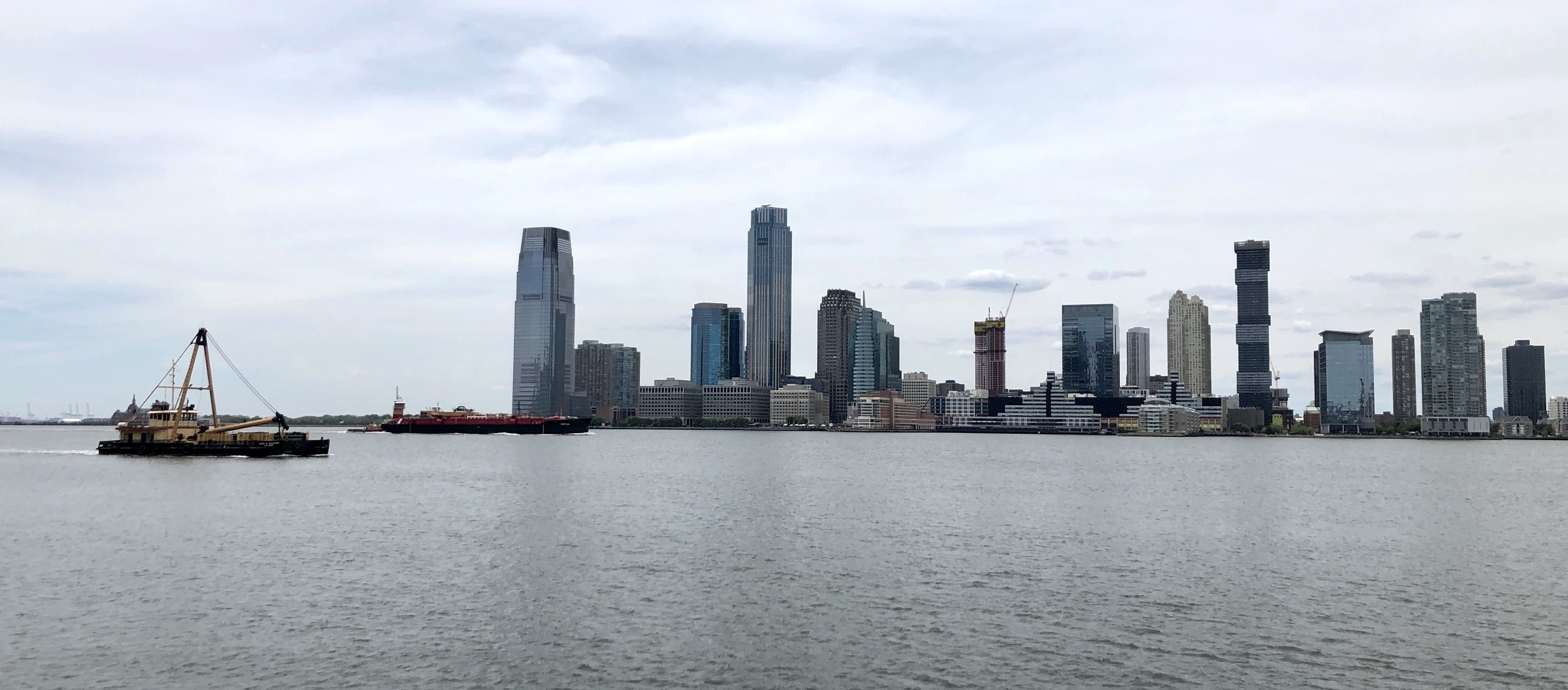 View of the Jersey City skyline from Manhattan in June 2020. Photo by Chris6d.